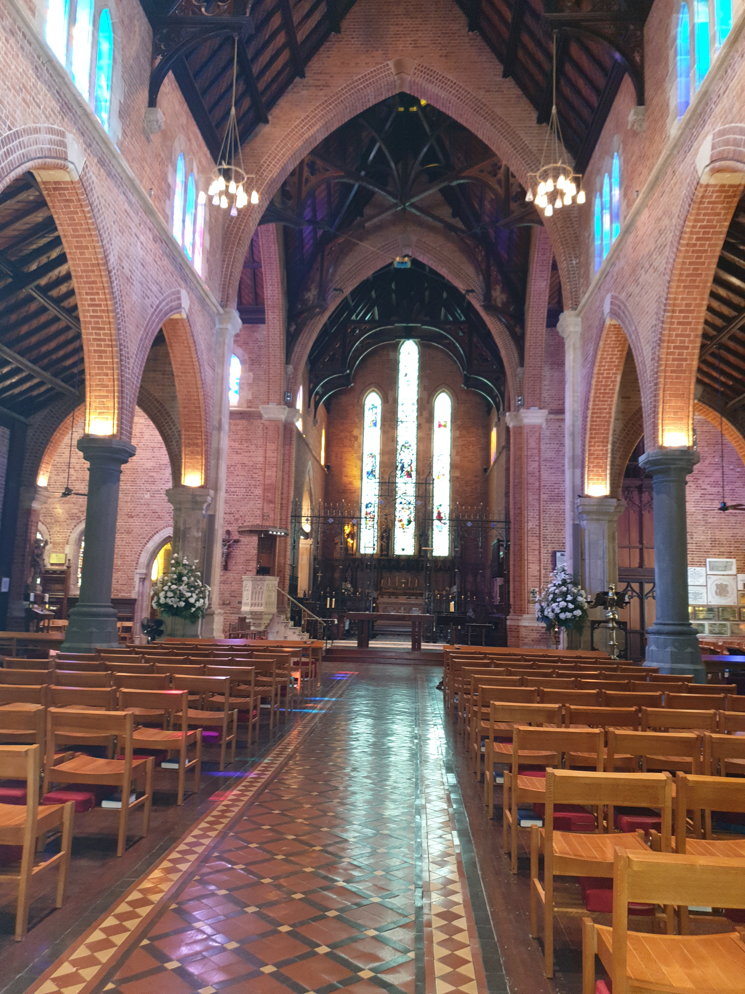 taken inside the church